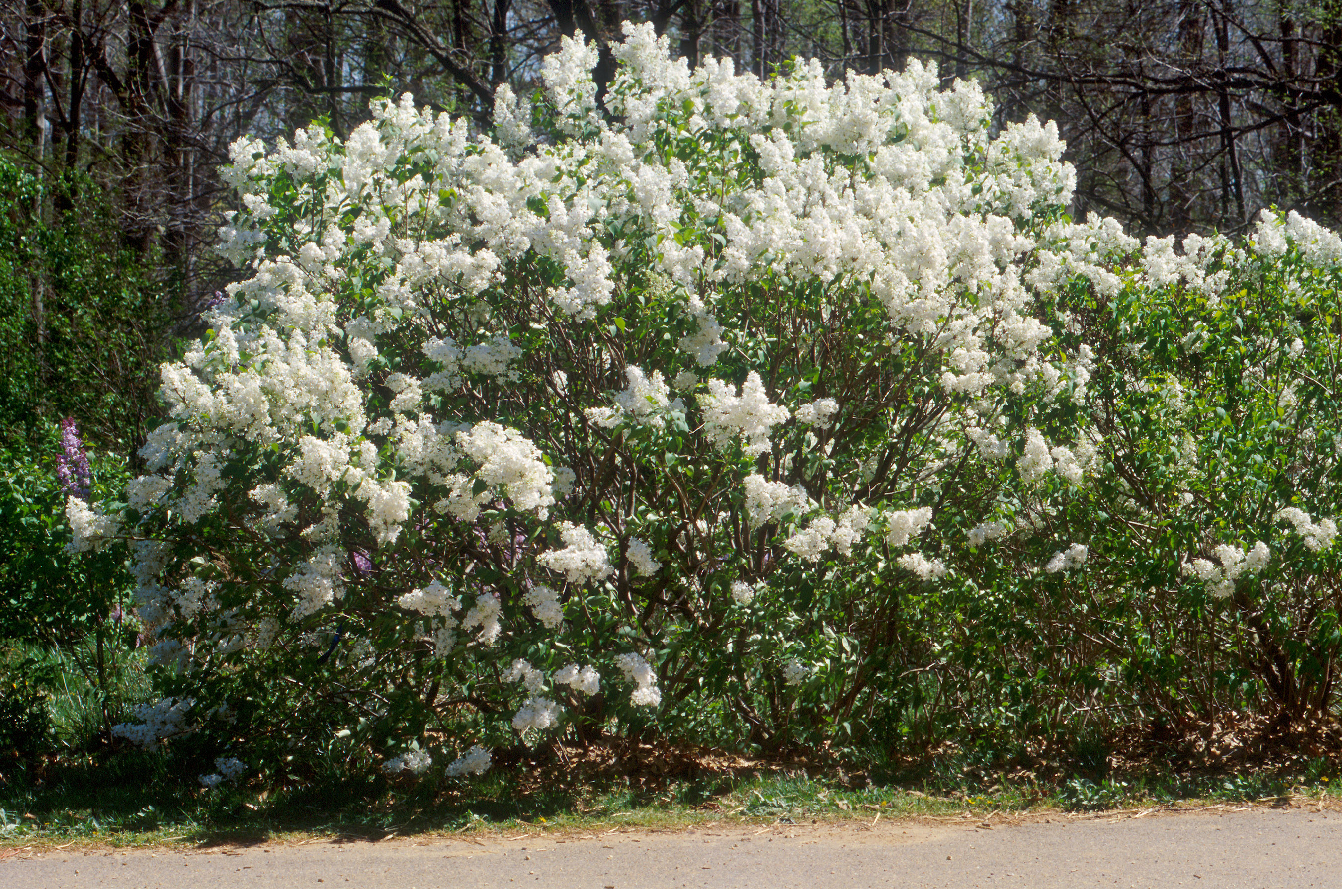 Lilac cultivar from [1] Lilac cultivar thumbnail Image Number K9608-19 The new lilac cultivar named Syringa vulgaris Betsy Ross, released by Margaret Pooler of the U.S. National Arboretum, has fragrant white flowers and tolerates powdery mildew. Photo by Margaret Pooler.